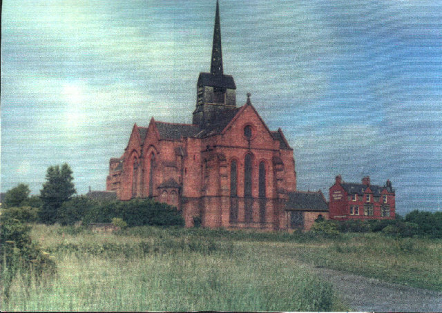 East end of St Mary's church, Ince-in-Makerfield, before demolition in 1978. Photographed by the late Godfrey Jones. On the right is the Coaching Inn, which still stands.